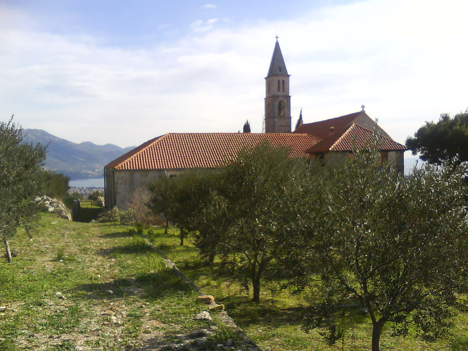 Franciscan church, monastery and cemetery, on the hill above Orebić